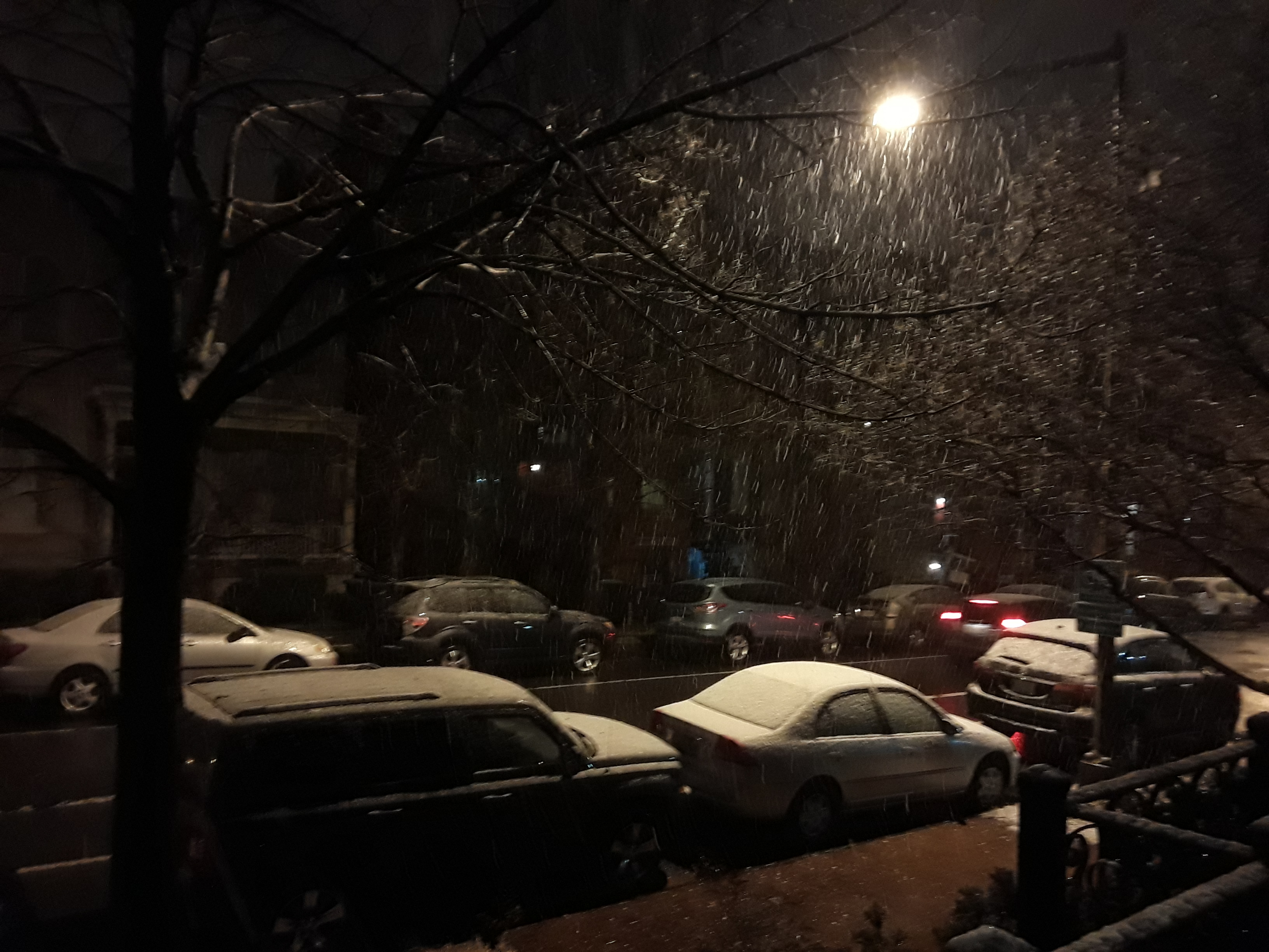 Snow falls on cars and sidewalks in the Capitol Hill neighborhood of Washington, DC on the night of March 6, 2018